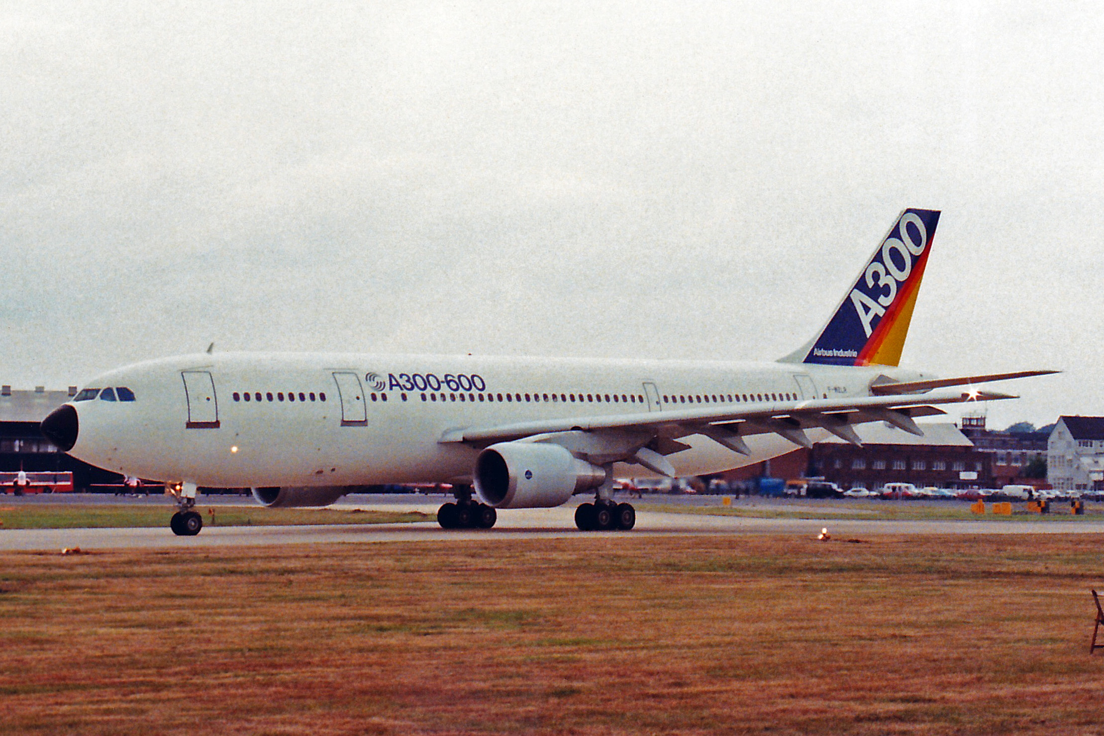 Replacing an earlier photo with a better version. Prototype A300-600 at Farnborough Air Show in 1984. It was eventually sold to a French charter airline, 'La Tour Charter' in Aug-89 as F-ODTK and sub-leased to Garuda Indonesian in Jan-90 until May-92 when it was returned to the lessor and stored at Bordeaux (BOD) for two years. In May-94 it was leased to Sudan Airways, still as F-ODTK. It was eventually sold to Sudan Airways in Jul-04 as ST-ASS and continued in service until around 2009 when it was stored at Khartoum (KRT). The last report I've seen was in Jul-11 when it was noted still stored at KRT in poor condition with bits missing.